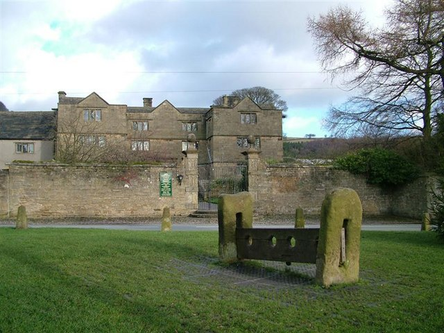 Eyam Hall and the village stocks